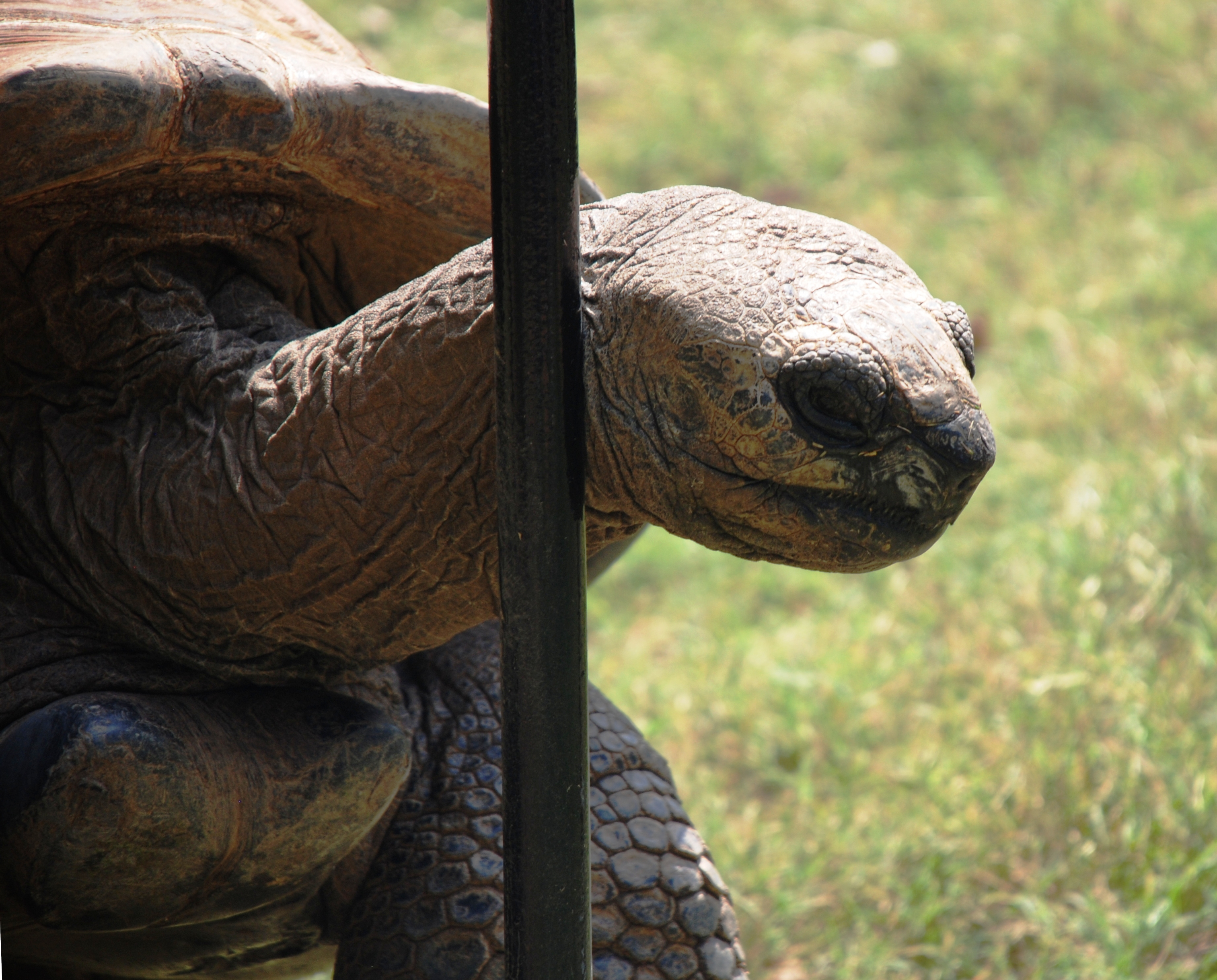 Reptiles in Smithsonian National Zoological Park: Geochelone gigantea Aldabra Tortoise